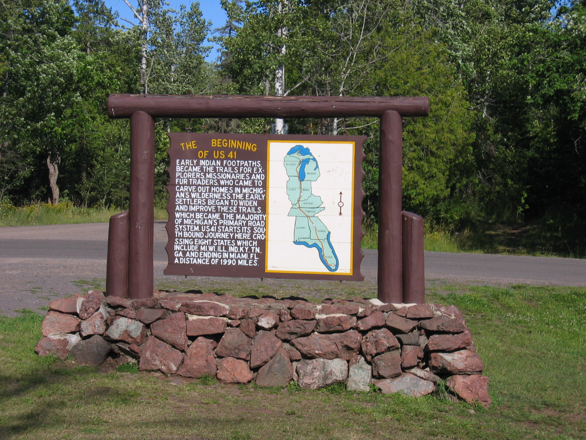 I (Le fantome de l'opera) took this picture of the US 41 sign on a recent trip to the Upper Peninsula.